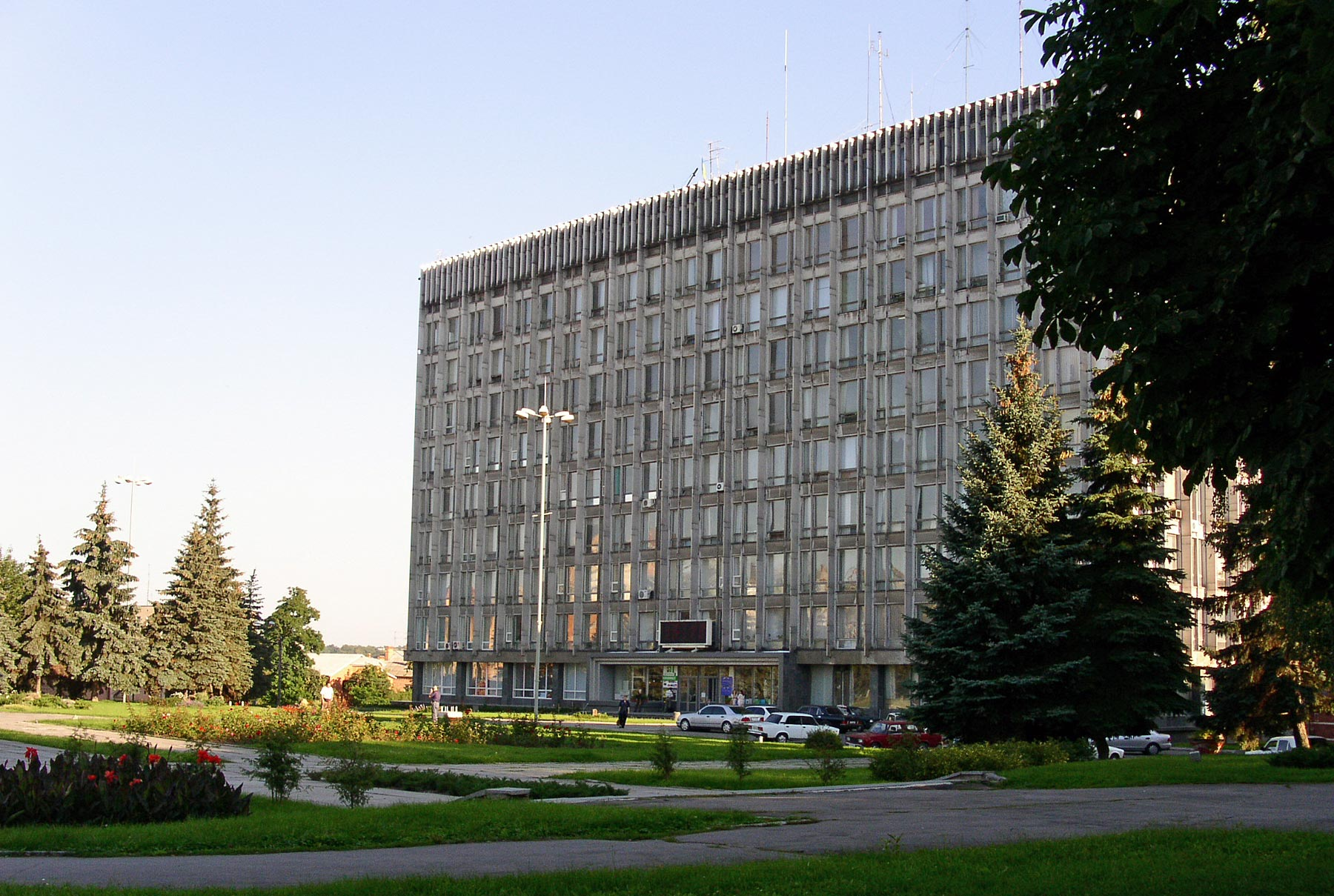 Vinnytsia City Council (Vinnytska Miska Rada).